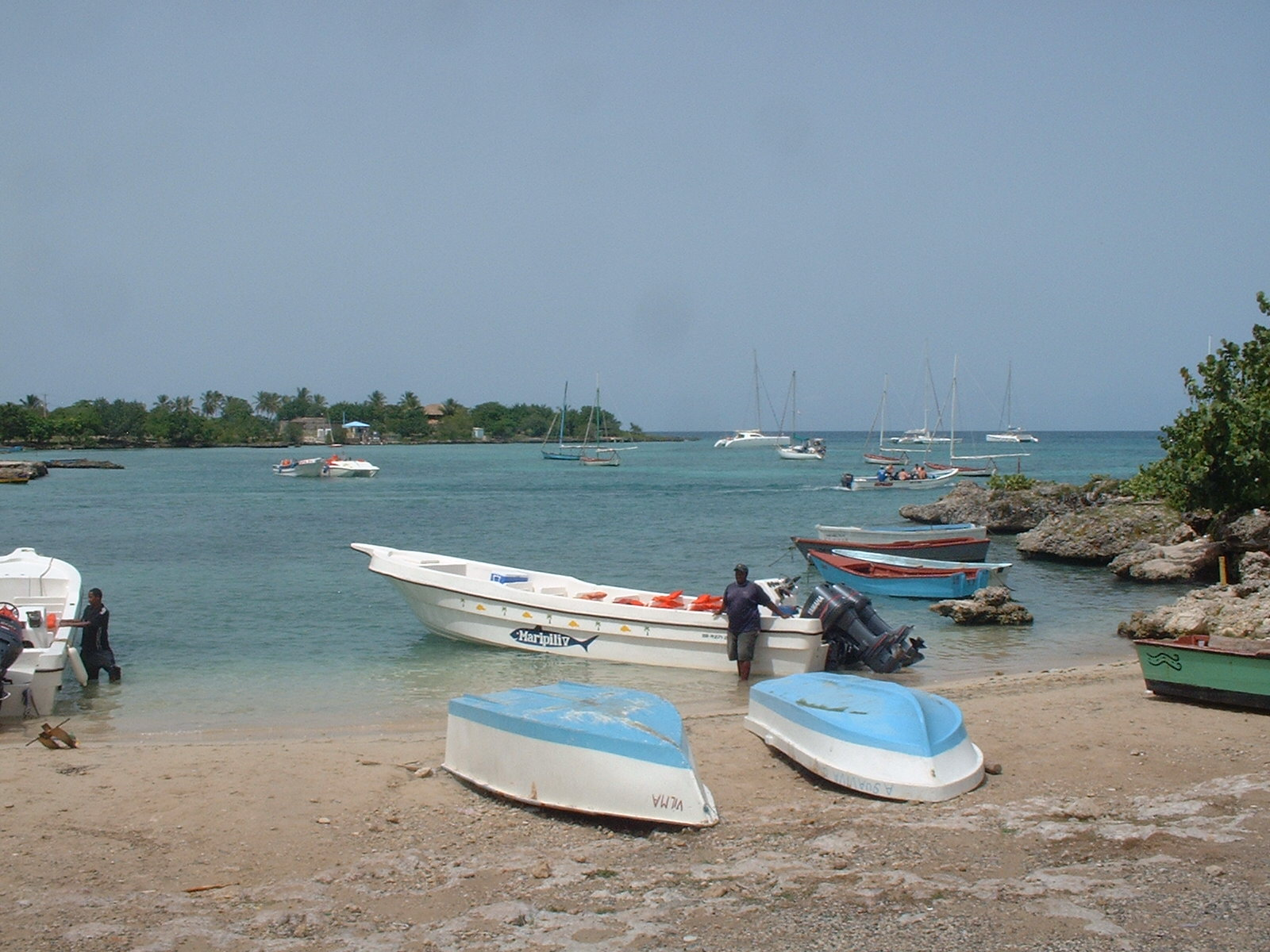 Harbour of Bayahíbe